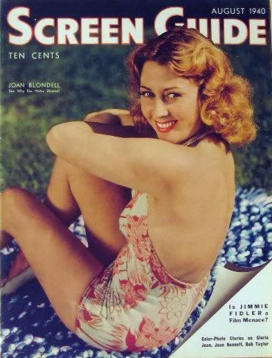 Joan Blondell